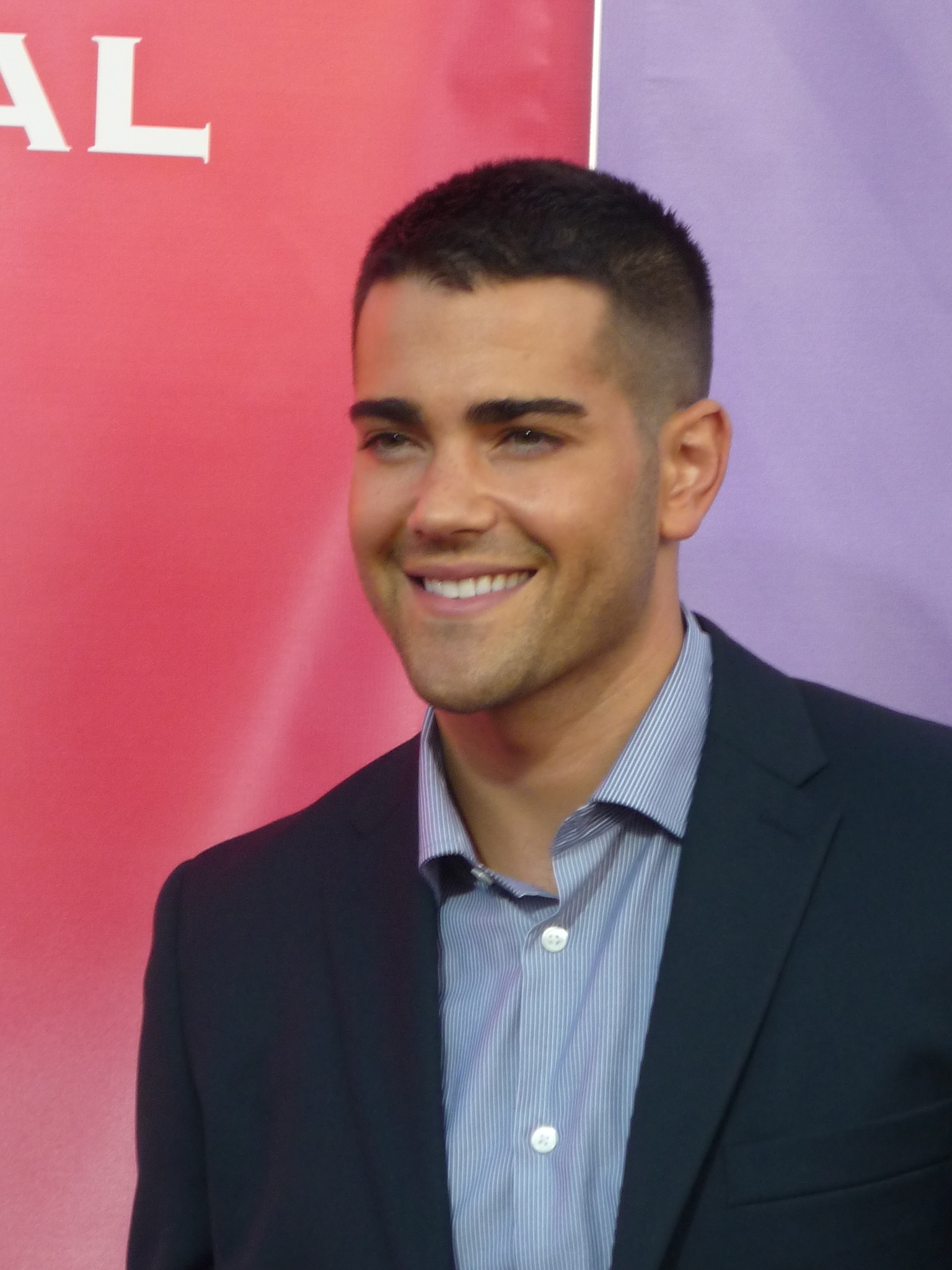 Actor Jesse Metcalfe in July 30, 2010.